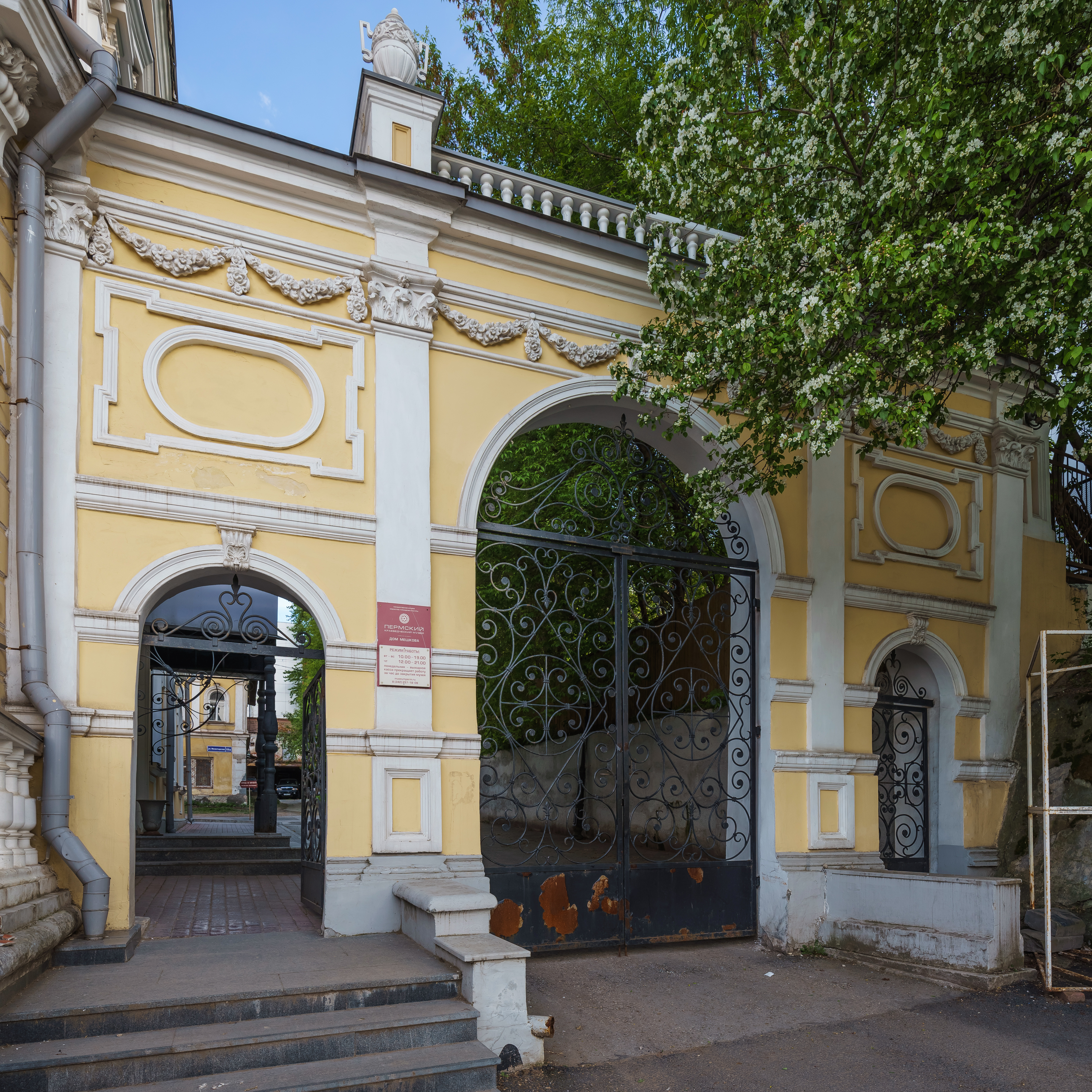 Building ensemble at Monastyrskaya Street 11 in Perm, Russia